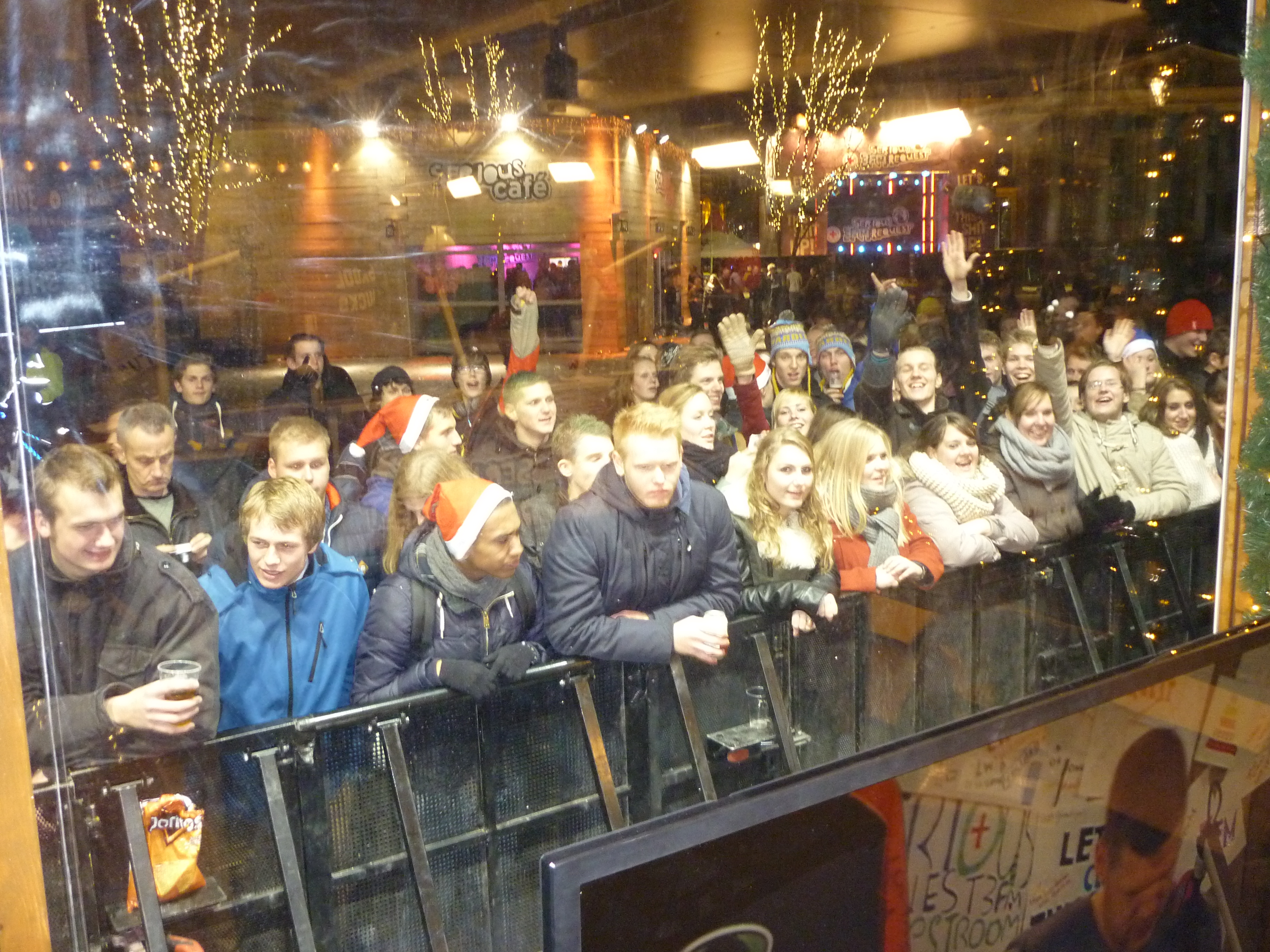 nl:3FM Serious Request 2013